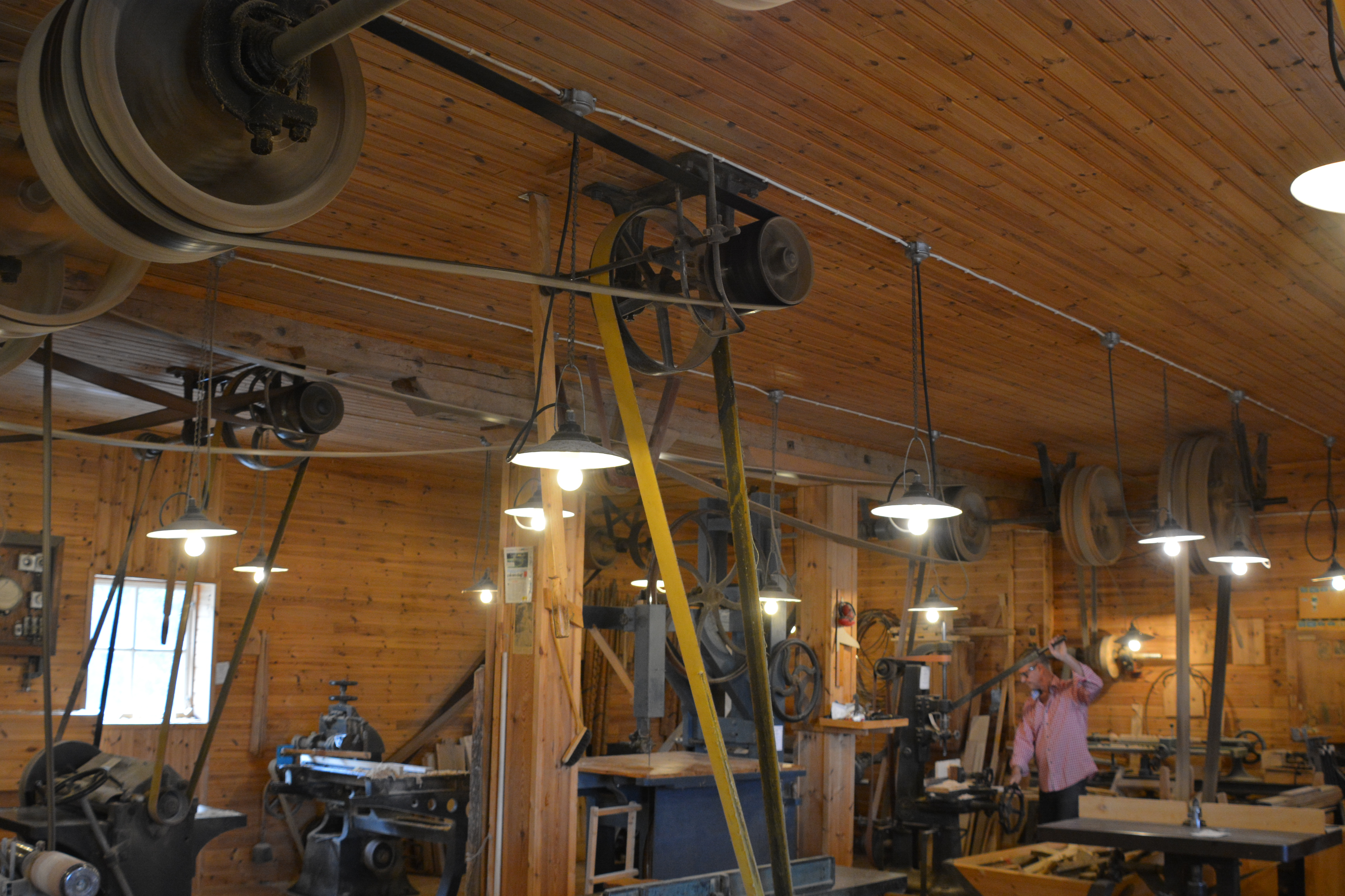 Virserums möbelindustrimuseum